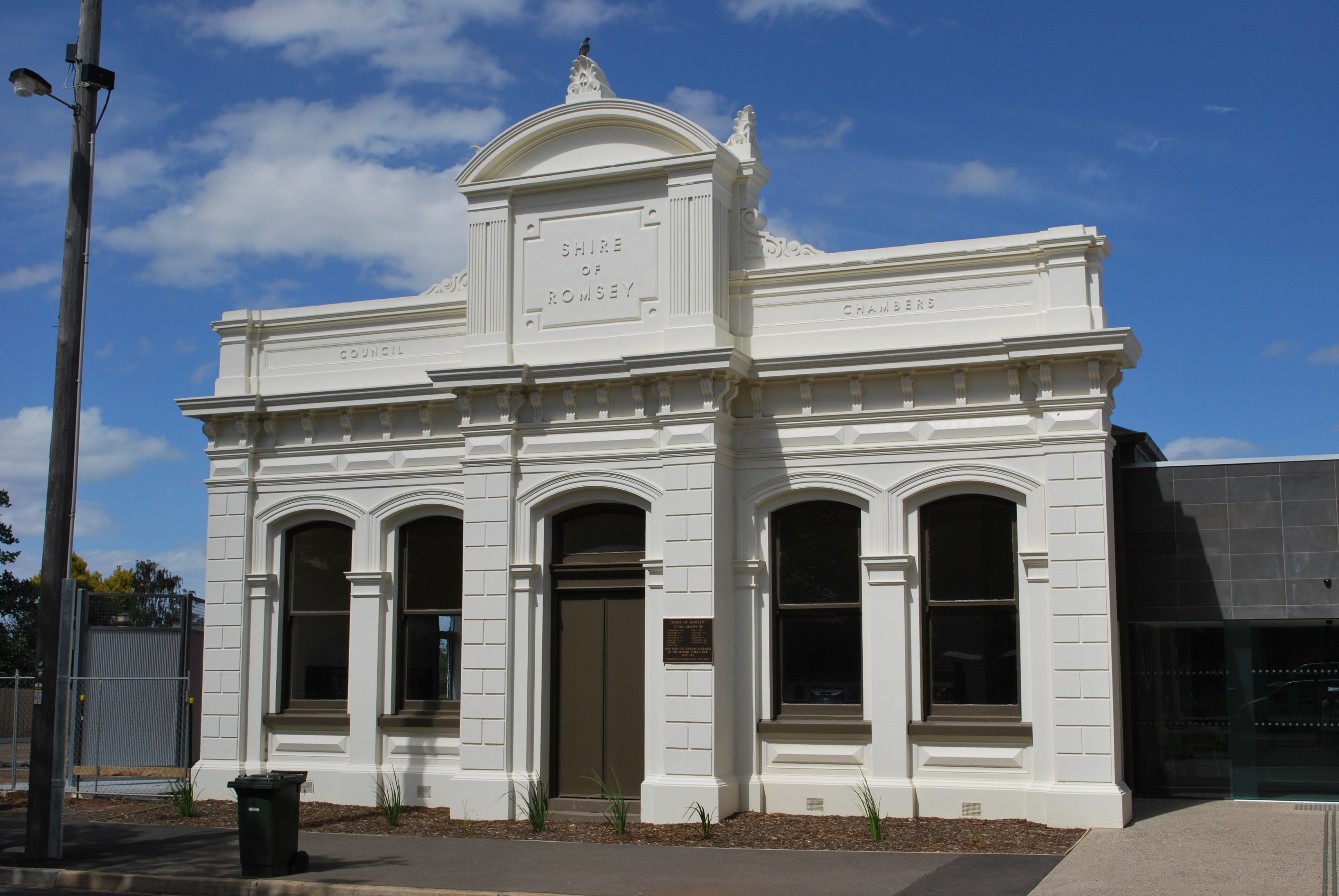 Former Council Chambers, 1942-1995, at Romsey, Victoria, previously the Commercial Bank Building, built in 1888